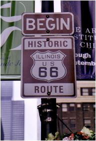 Start Point in Chicago